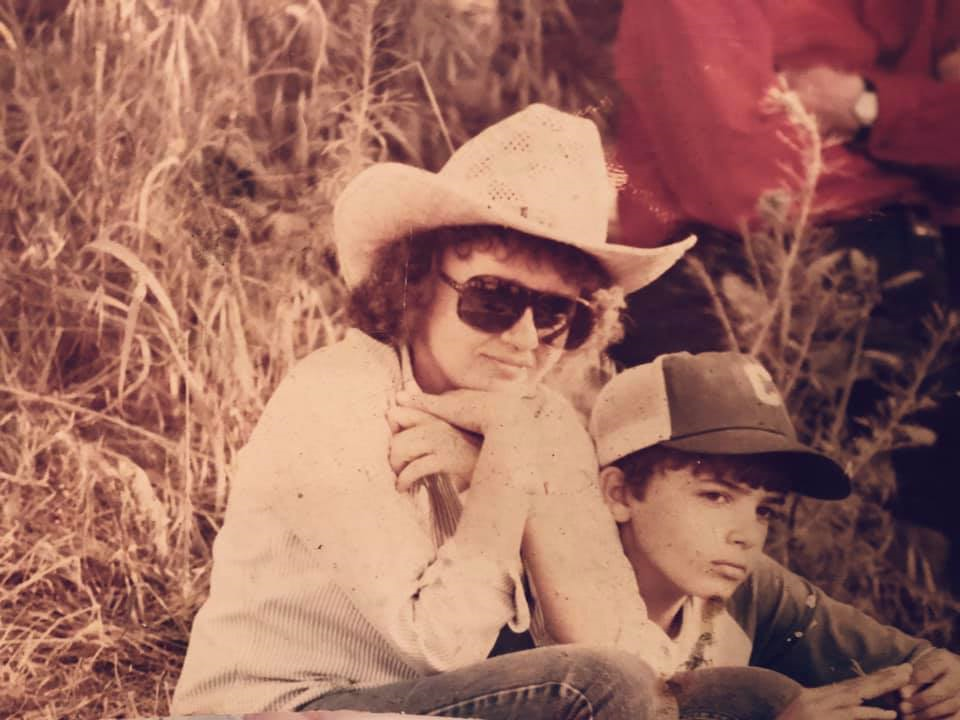 Carol Sobieski, American screen writer with her son, James Sobieski.